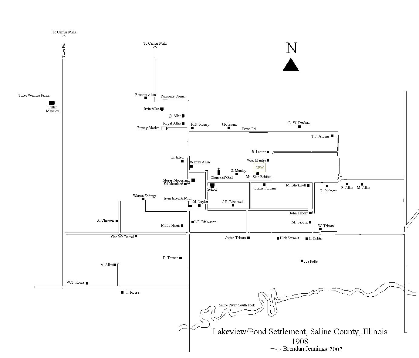 Self-made map of Lakeview, Saline County, Illinois, circa 1908